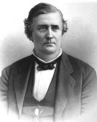 Drawing of James Gopsill